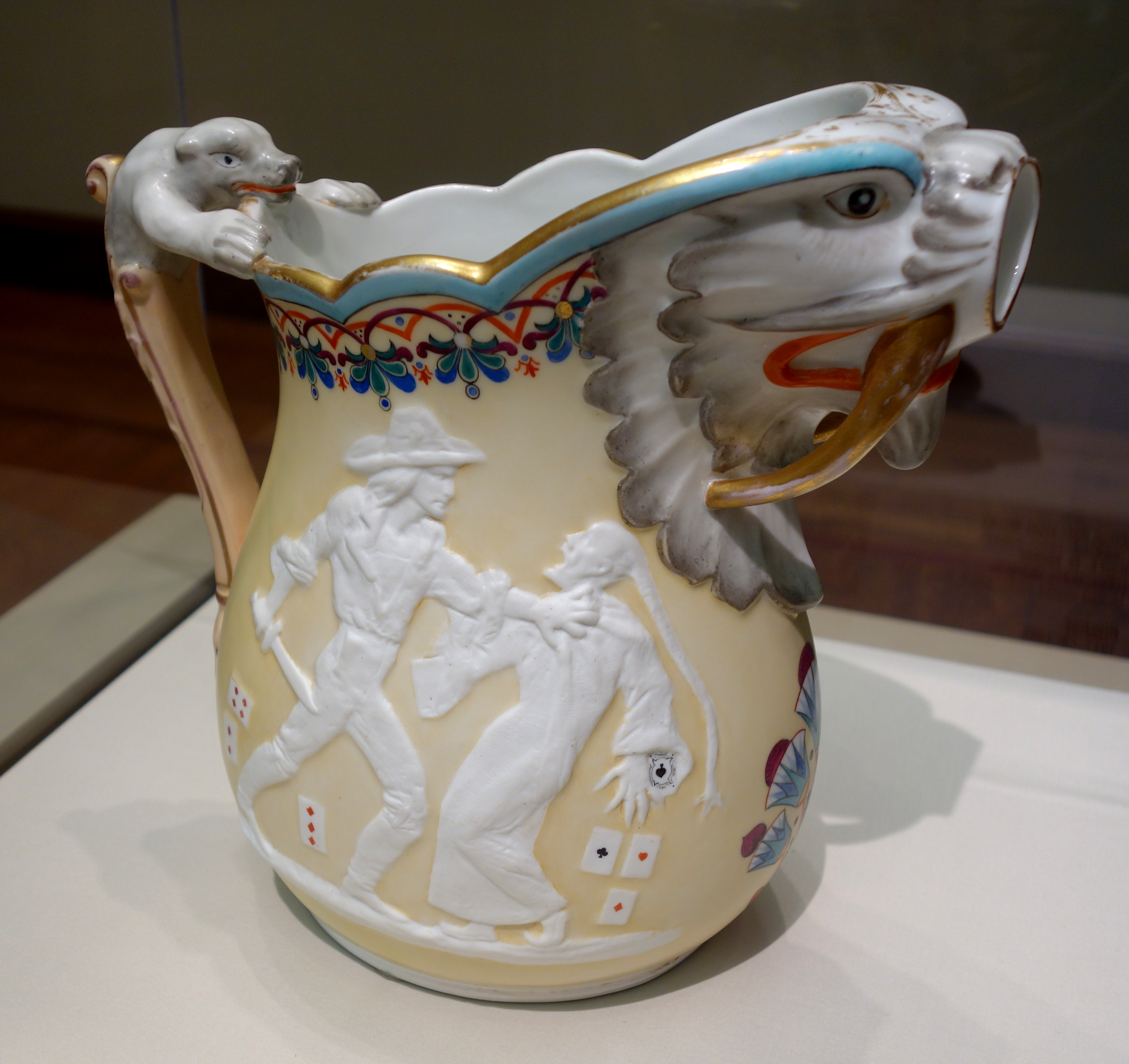 Exhibit in the Cincinnati Art Museum, Cincinnati, Ohio, USA. This artwork is in the public domain because the artist died more than 70 years ago.